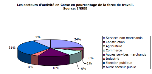 The workforce in Corsica (2005)